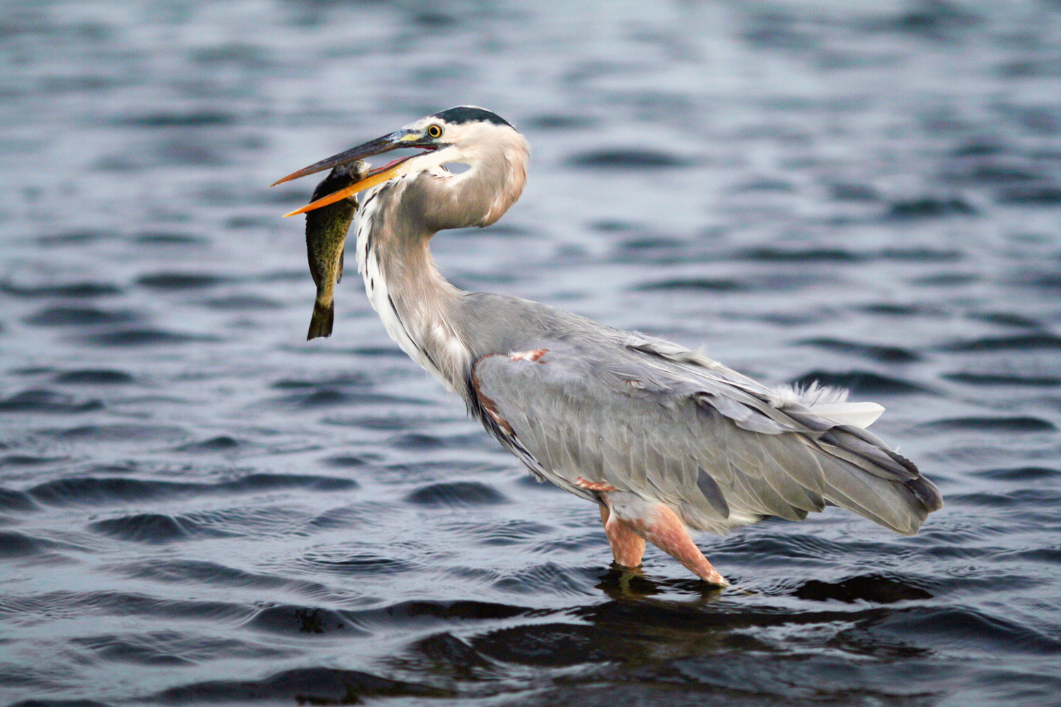 A Great Blue Heron with a recently caught fish. Tarpon Springs, FL.